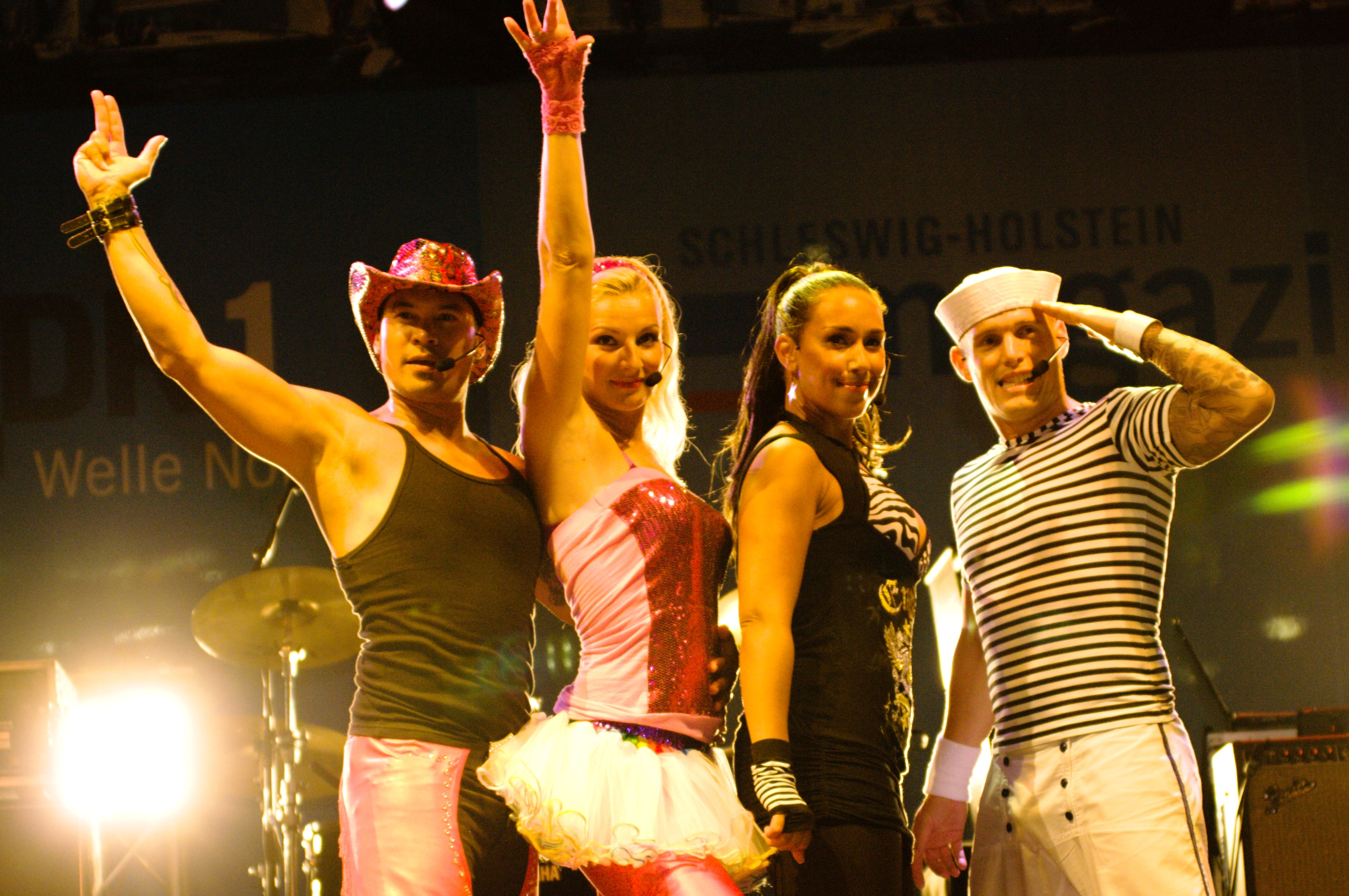 NDR Welle Nord Sommertour Quickborn - Vengaboys